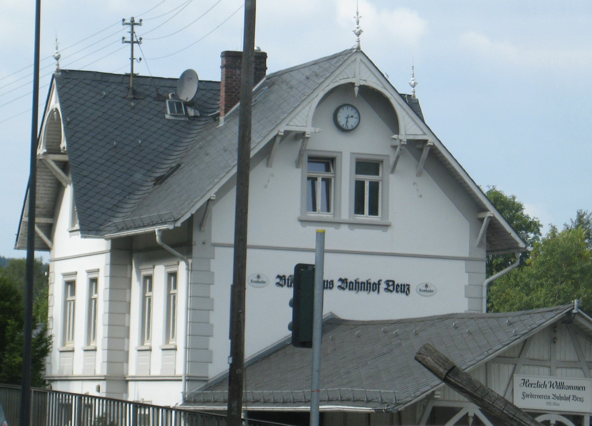 Deuz train station (Netphen).